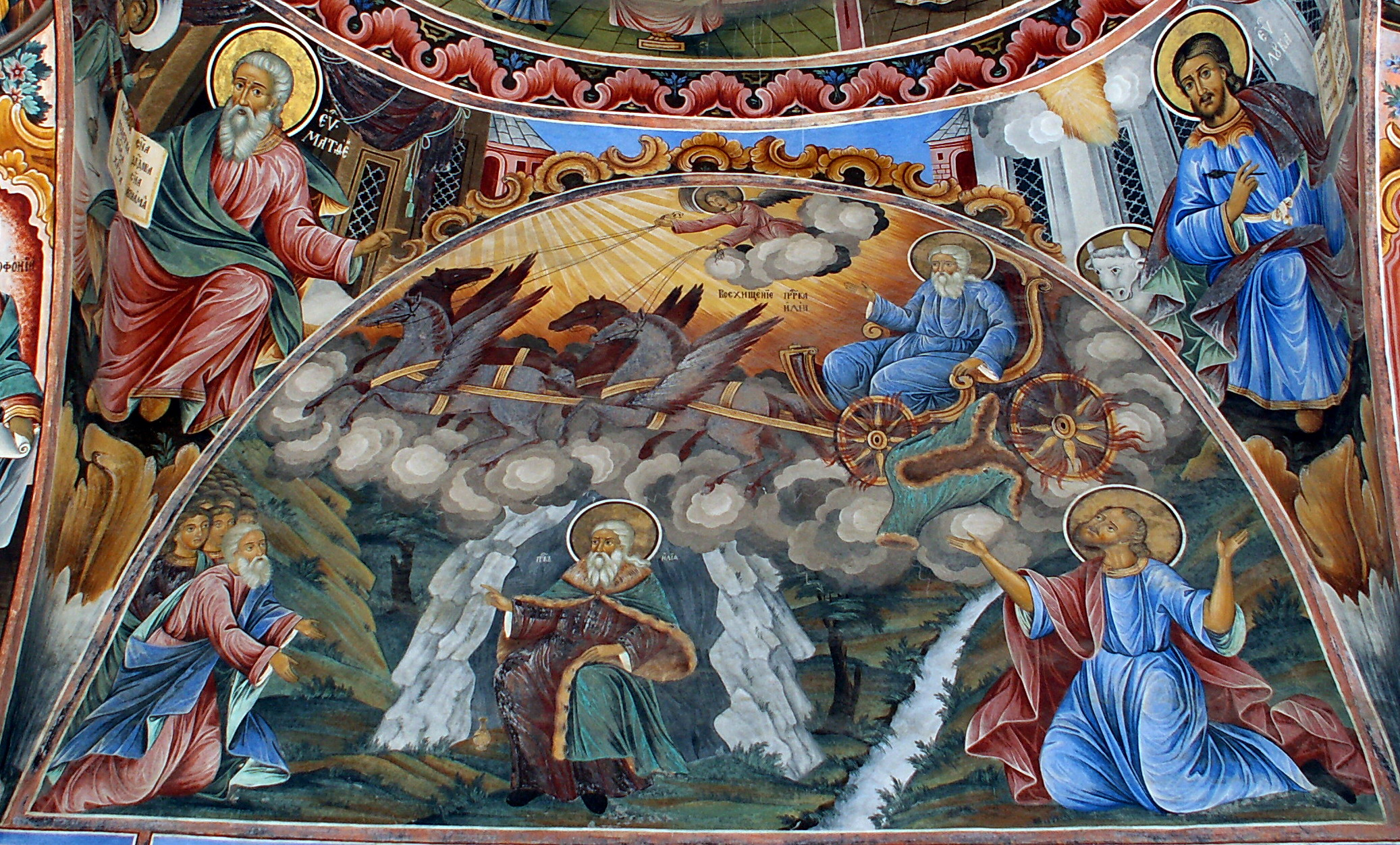 A fresco of Saint Ilia (Elijah) from the Rila Monastery, Bulgaria